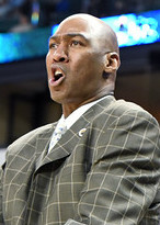 Head basketball coach Danny Manning of Wake Forest University.